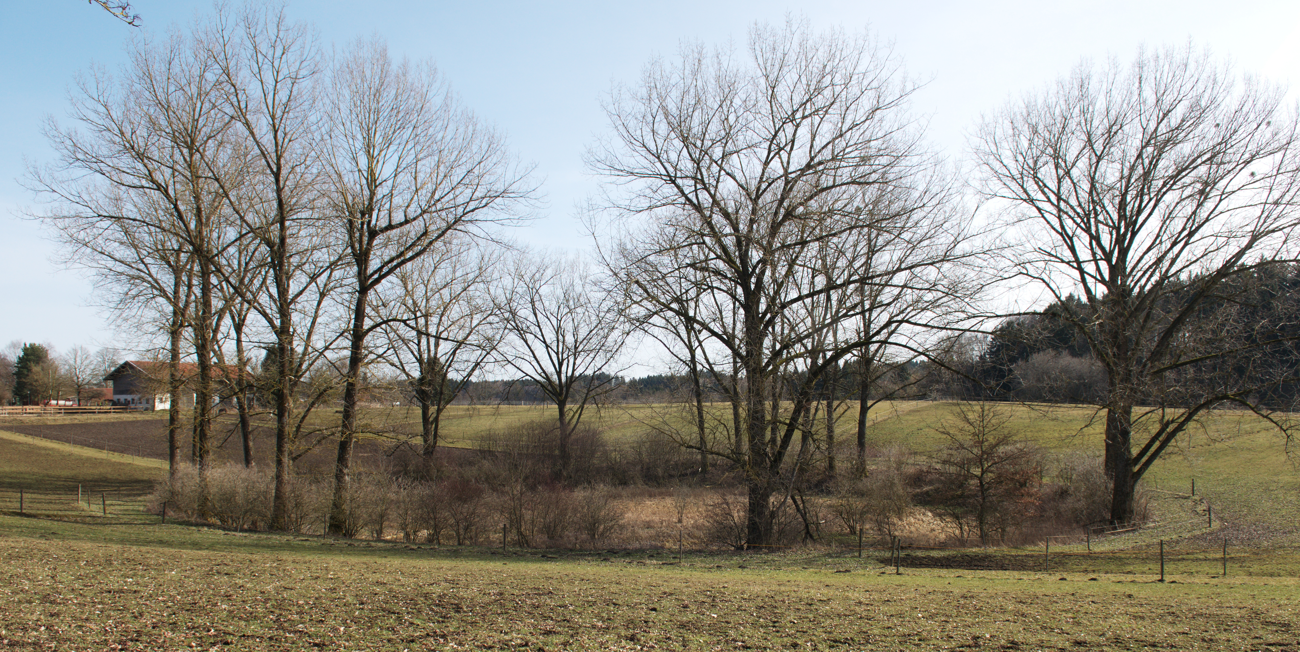 geotope, kettle hole (Tarantium), Geotop Nummer: 189R002